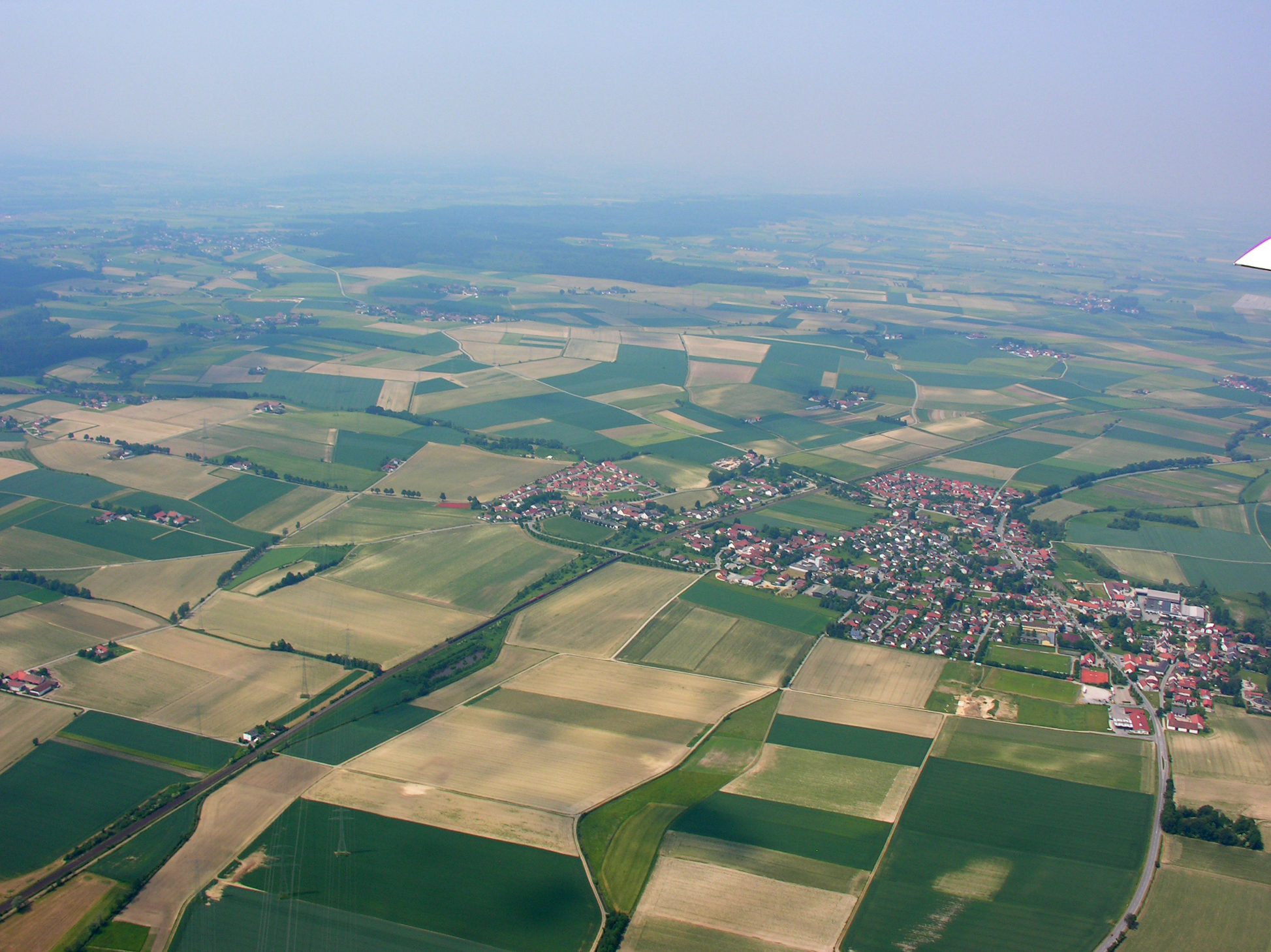 Germany, Bavaria, Aerial view of Künzing